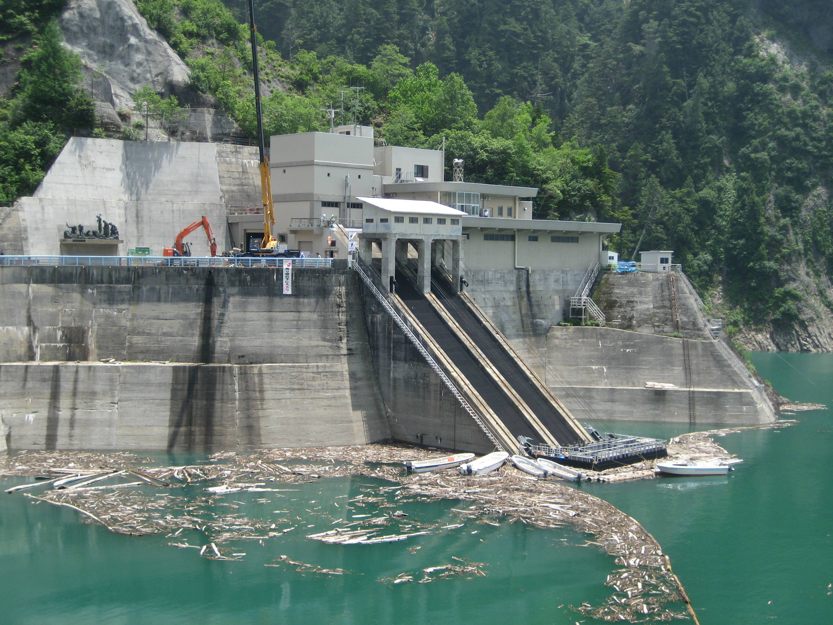 Kurobe Dam (黒部ダム) in Tateyama Town, Toyama prefecture, Japan.